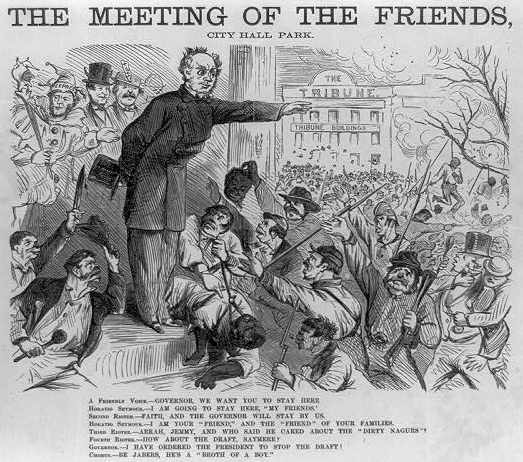 Political cartoon of New York governor Horatio Seymour's famous "My Friends" speech, delivered from the steps of New York's City Hall during the draft riots..